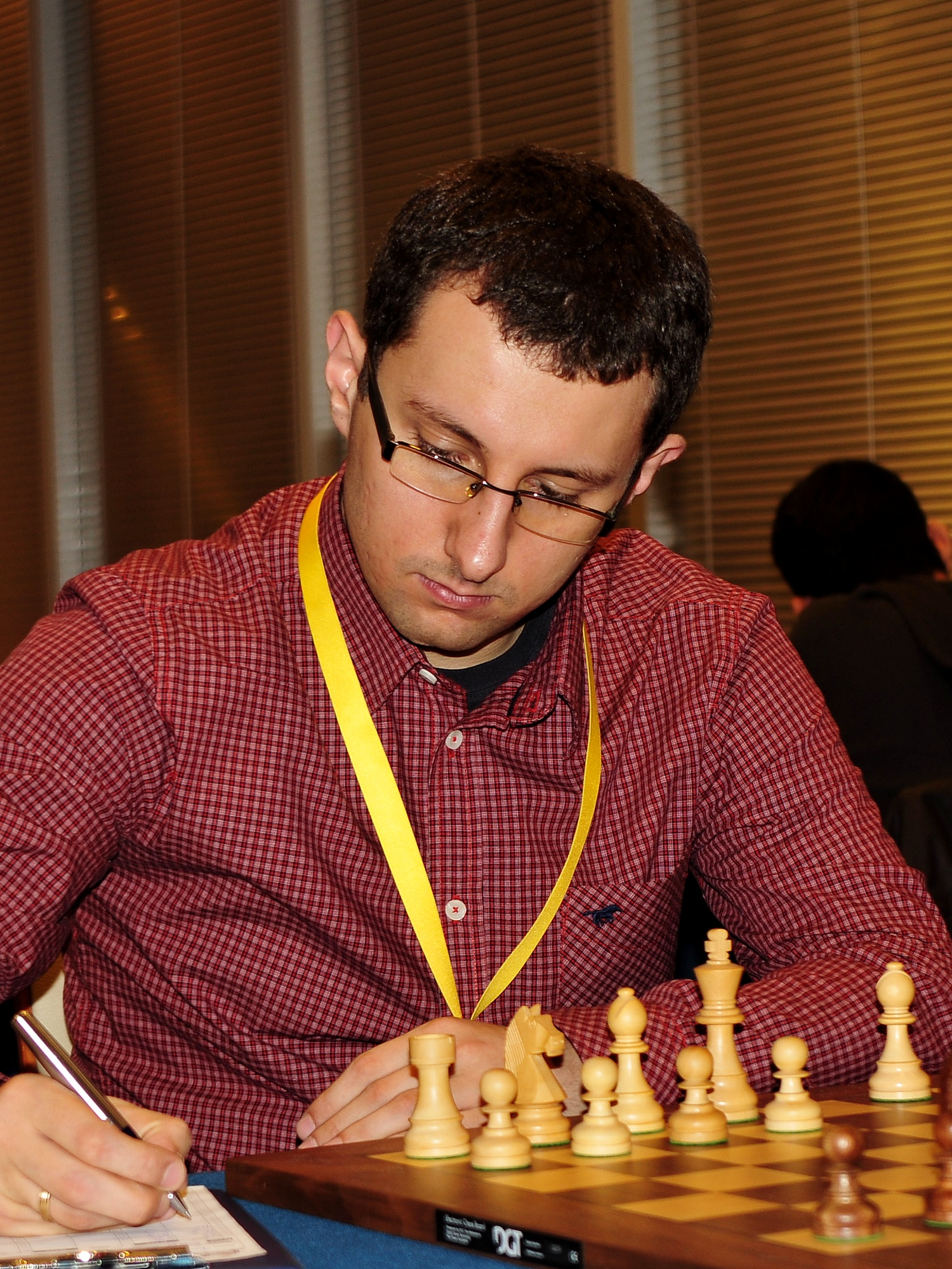 GM Krzysztof Bulski, European Chess Team Championship Warsaw 2013